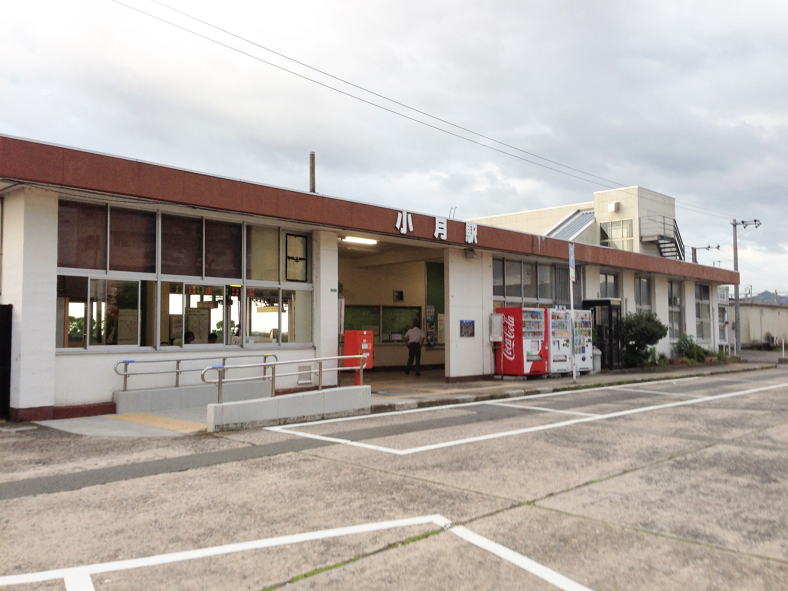 oduki-station; shimonoseki-city yamaguchi JAPAN